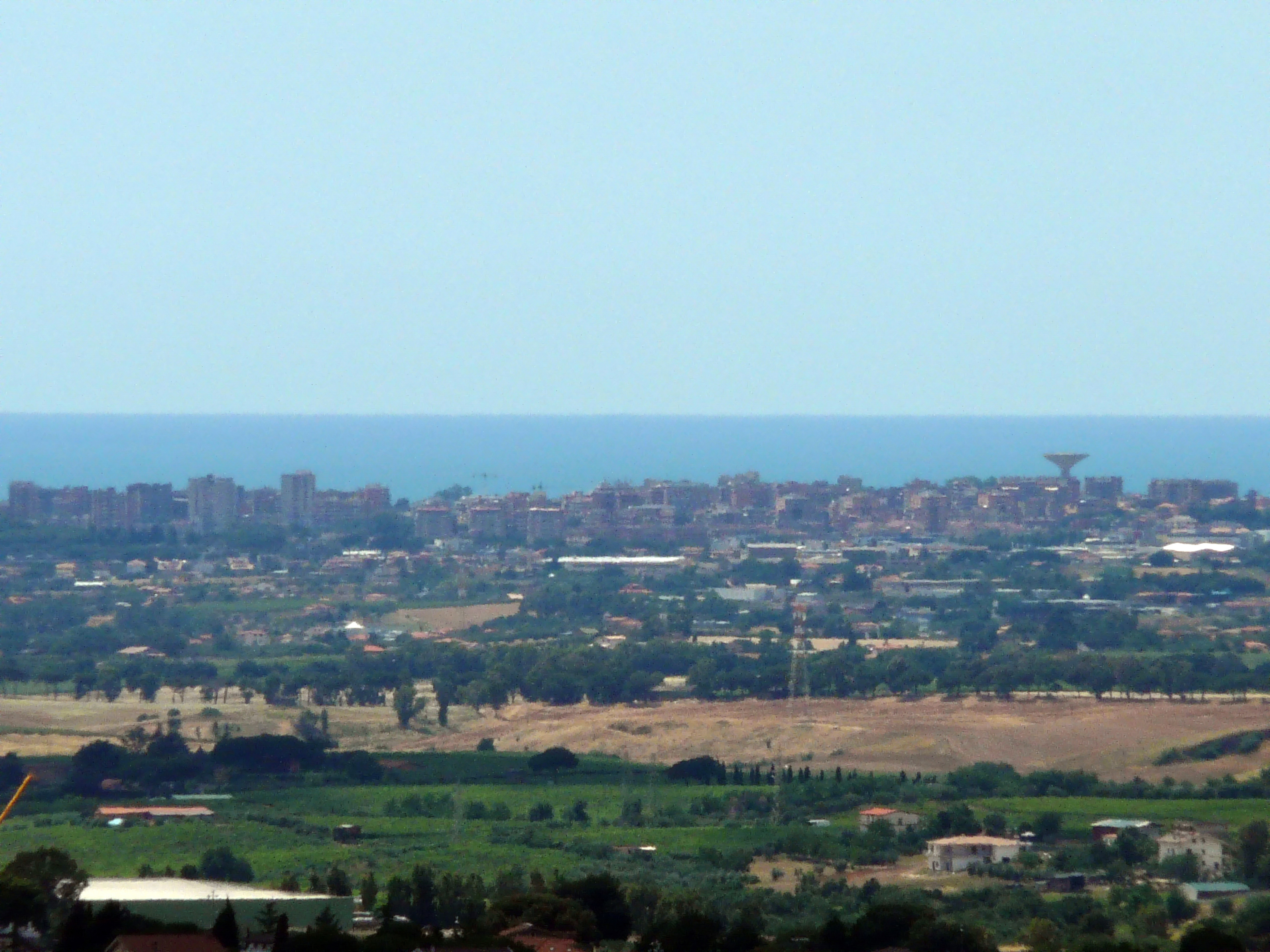 View of the city of Pomezia from the Alban hills